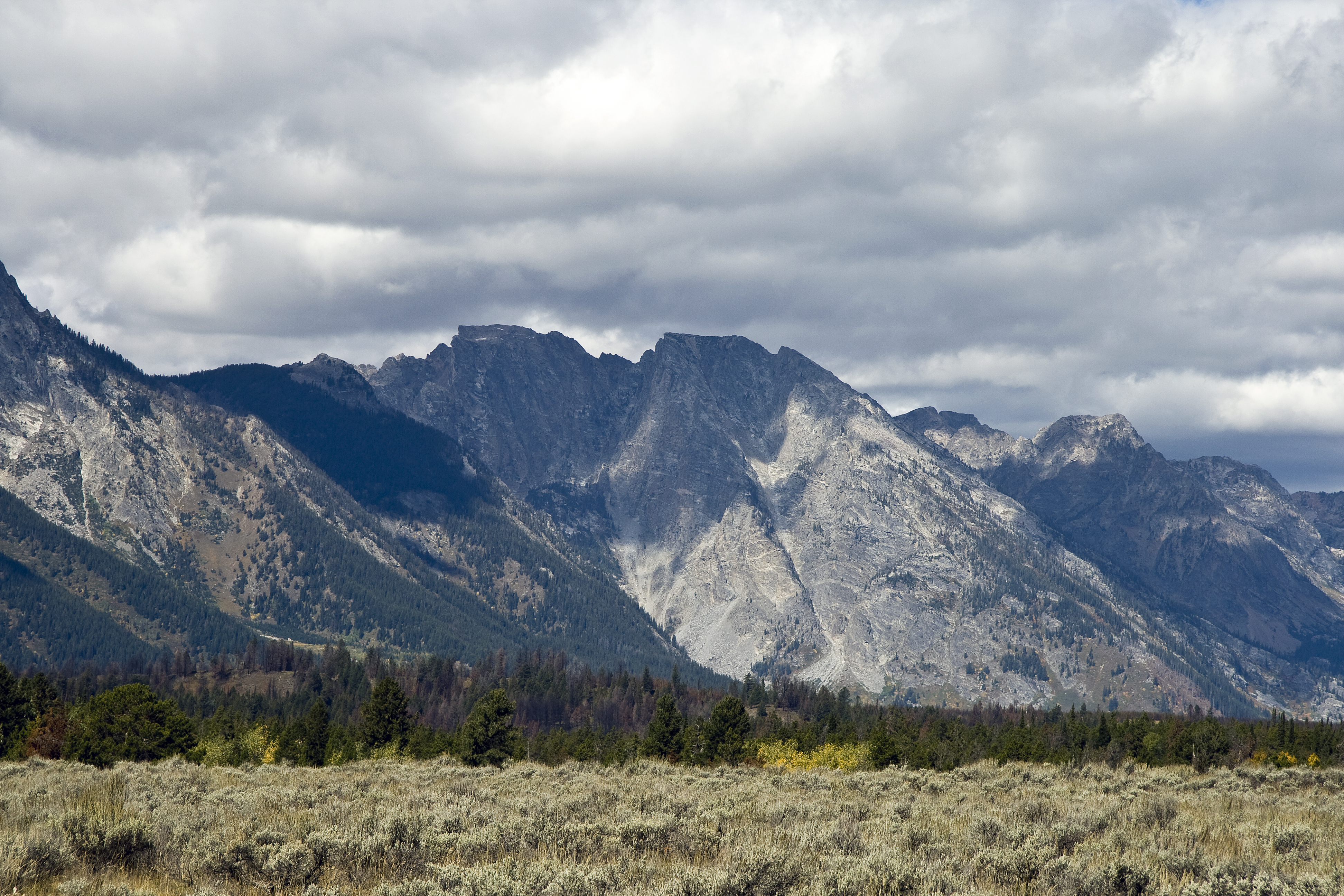 Traverse Peak, Bivouac Peak and in background, Rolling Thunder Mountain (left-right), Grand Teton National Park, Wyoming, USA.